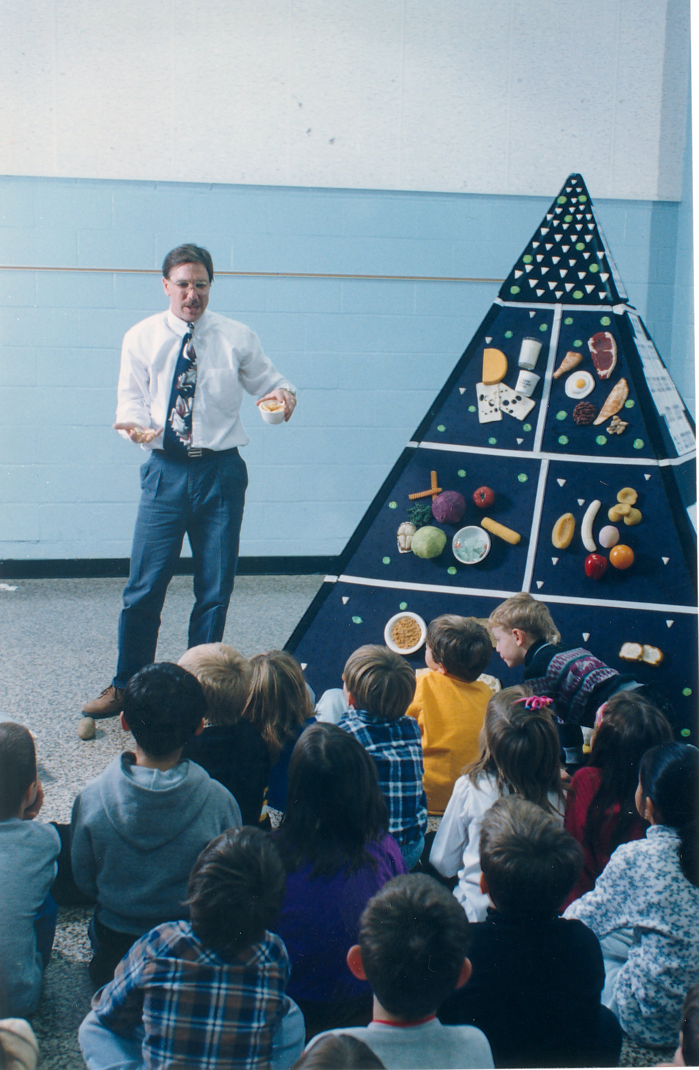 Lecture on the USDA Food Pyramid